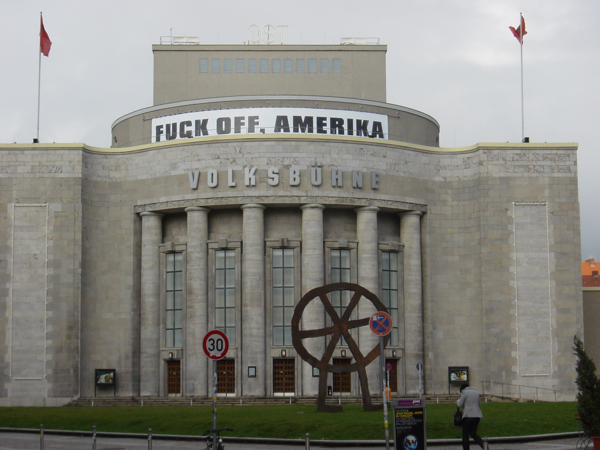 Volksbuehne - March 2008, with a banner advertising a staging of Eduard Limonov's Fuck off, Amerika